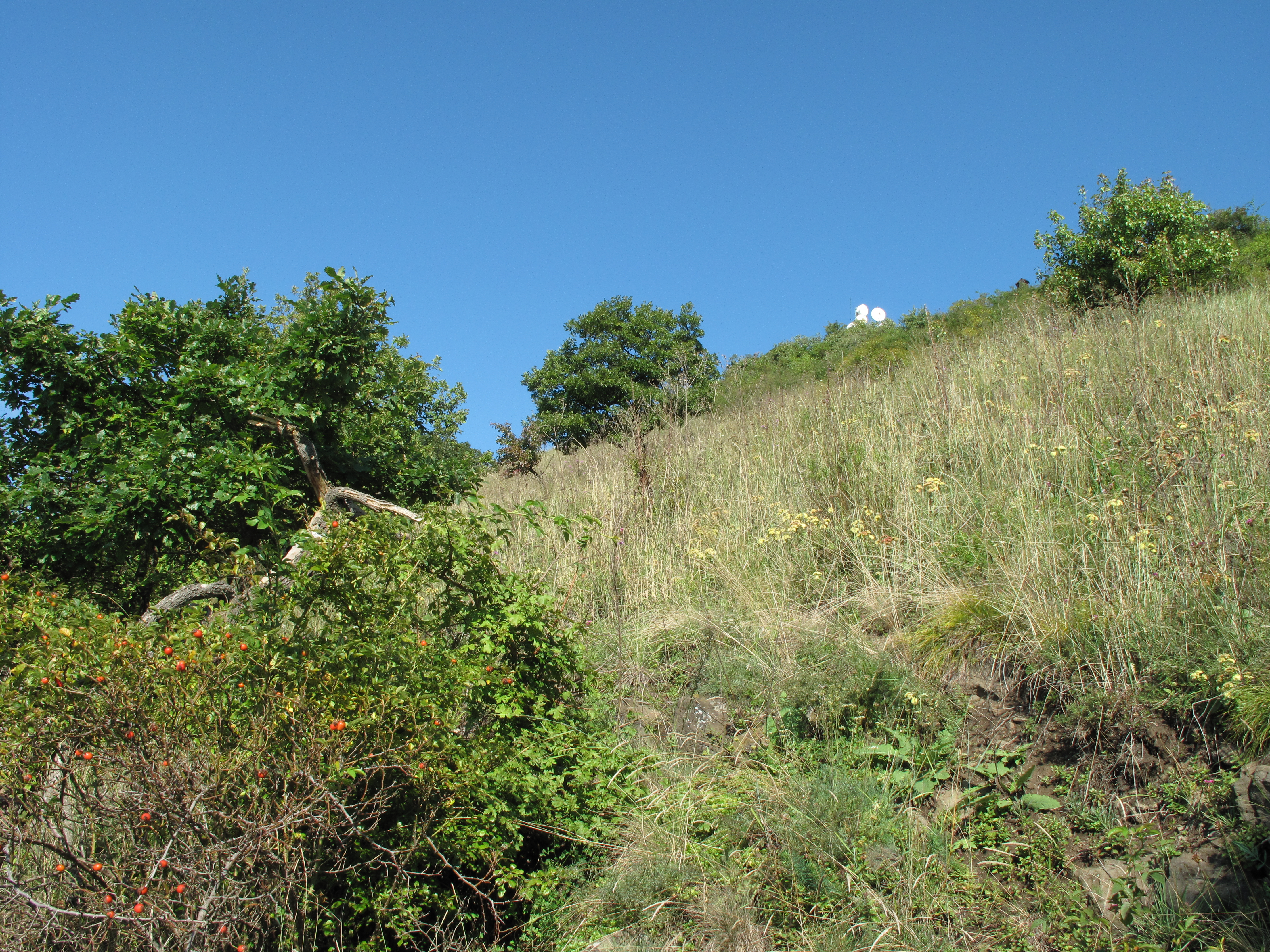 National Nature Reserve Lovoš with warm oak forest.